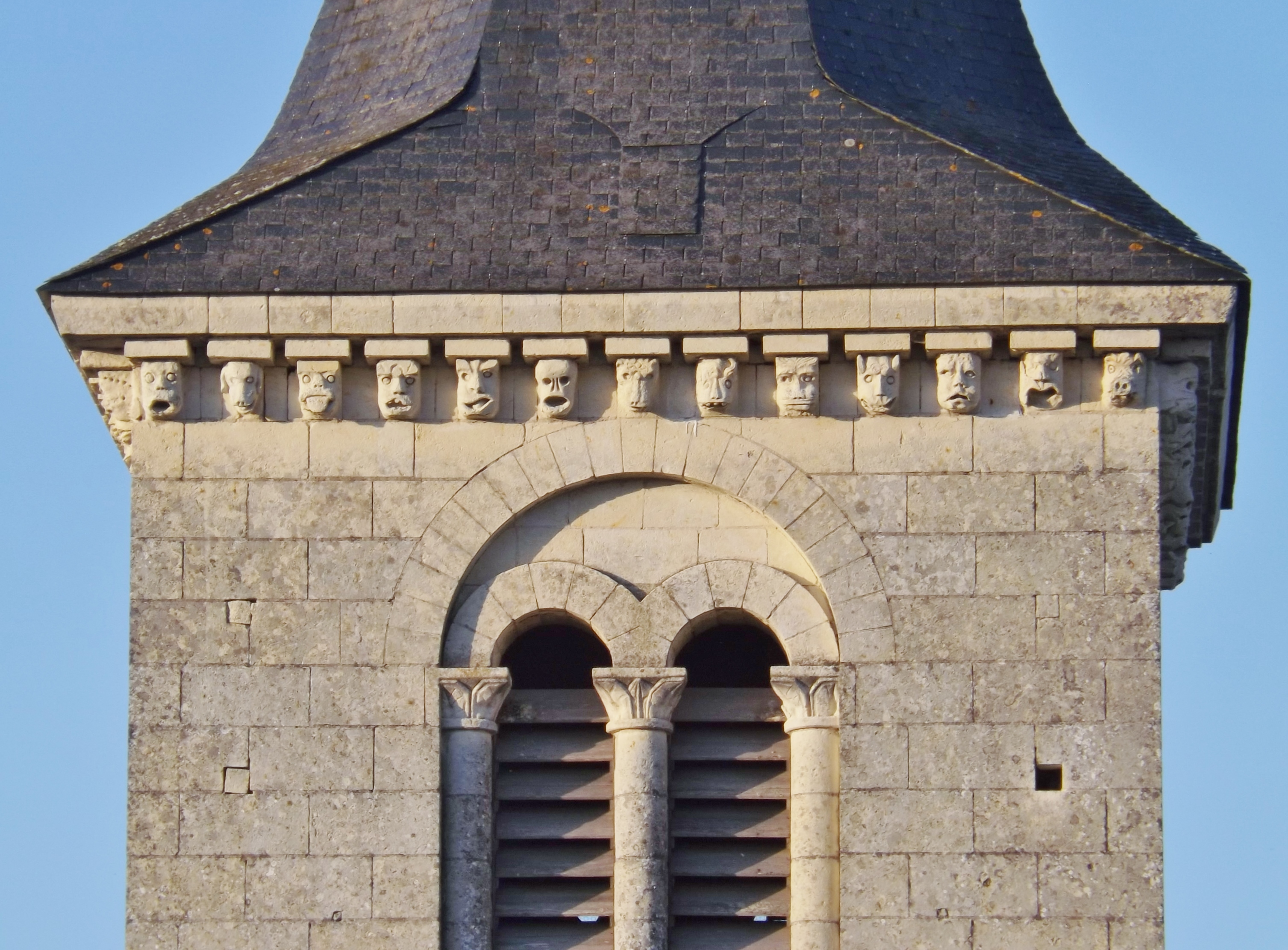 Sight of the front tower gargoyles of the église Saint-Paul church of Vivy in Maine-et-Loire, France.